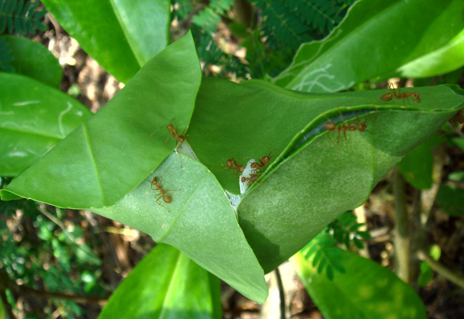 Nest of weaver ants. Pamalican. Philippines. The uploader, PHGCOM, is the creator and copyright holder of this photograph. PHGCOM (talk) 03:03, 24 June 2008 (UTC)